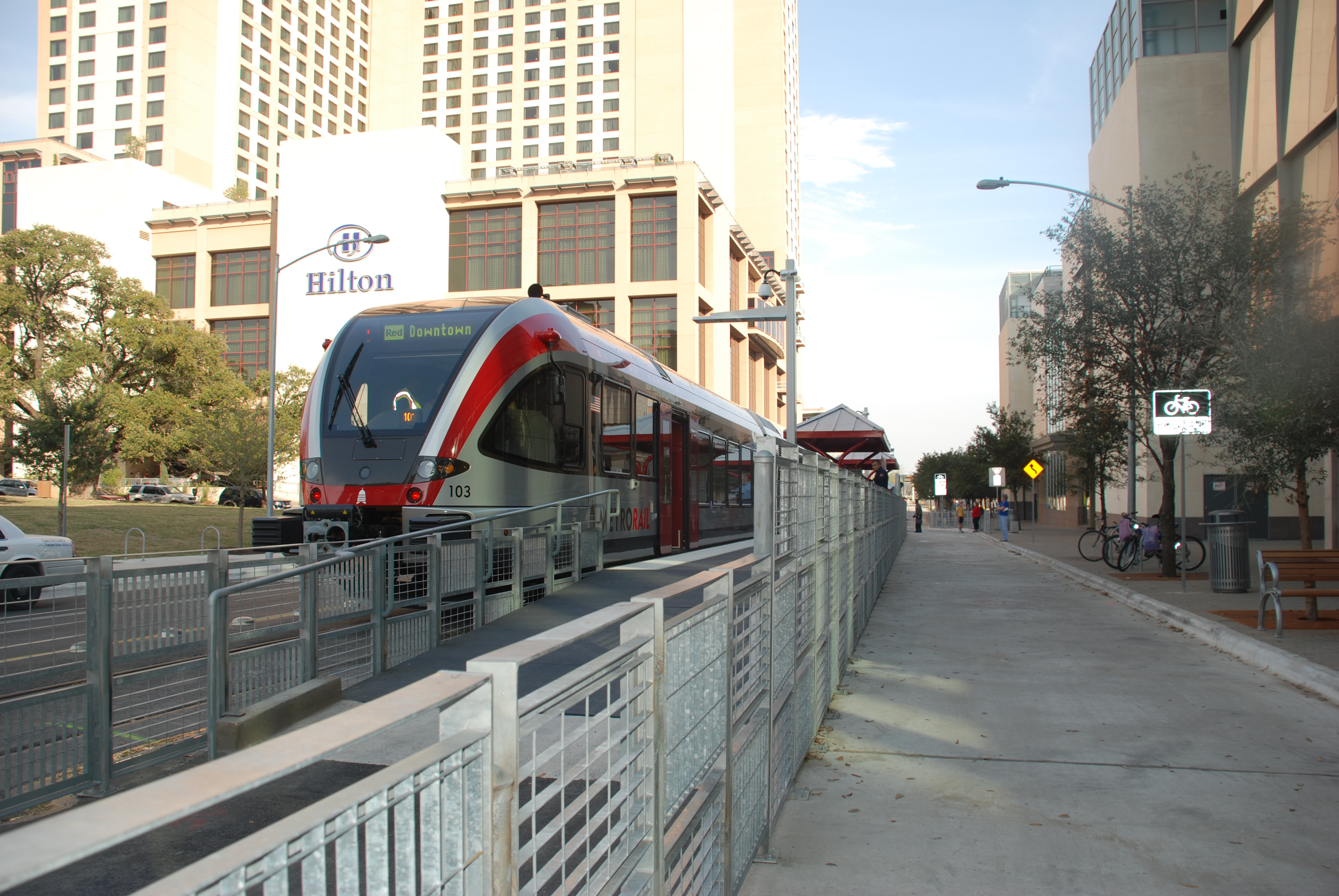 Capital MetroRail station in Austin, Texas